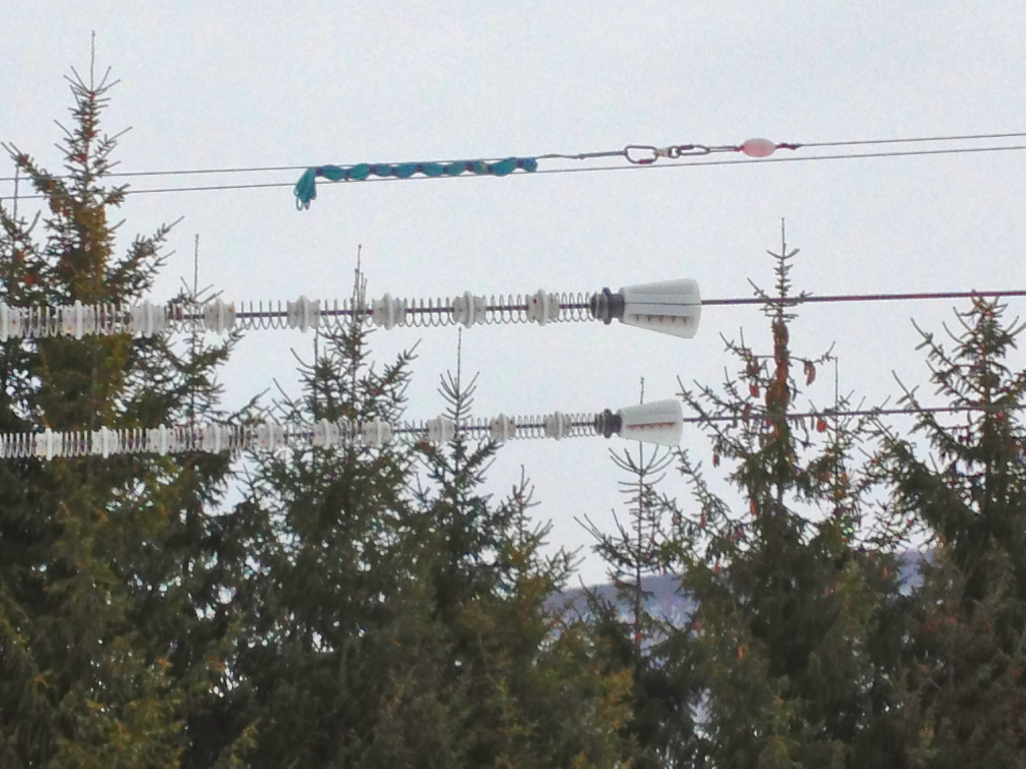 Zip line spring braking system. The springs will be compressed as the trolley comes into contact. There is an impact pad which will lock the mechanism when springs are compressed to prevent them from uncompressing which will cause the trolley to be pushed back out.